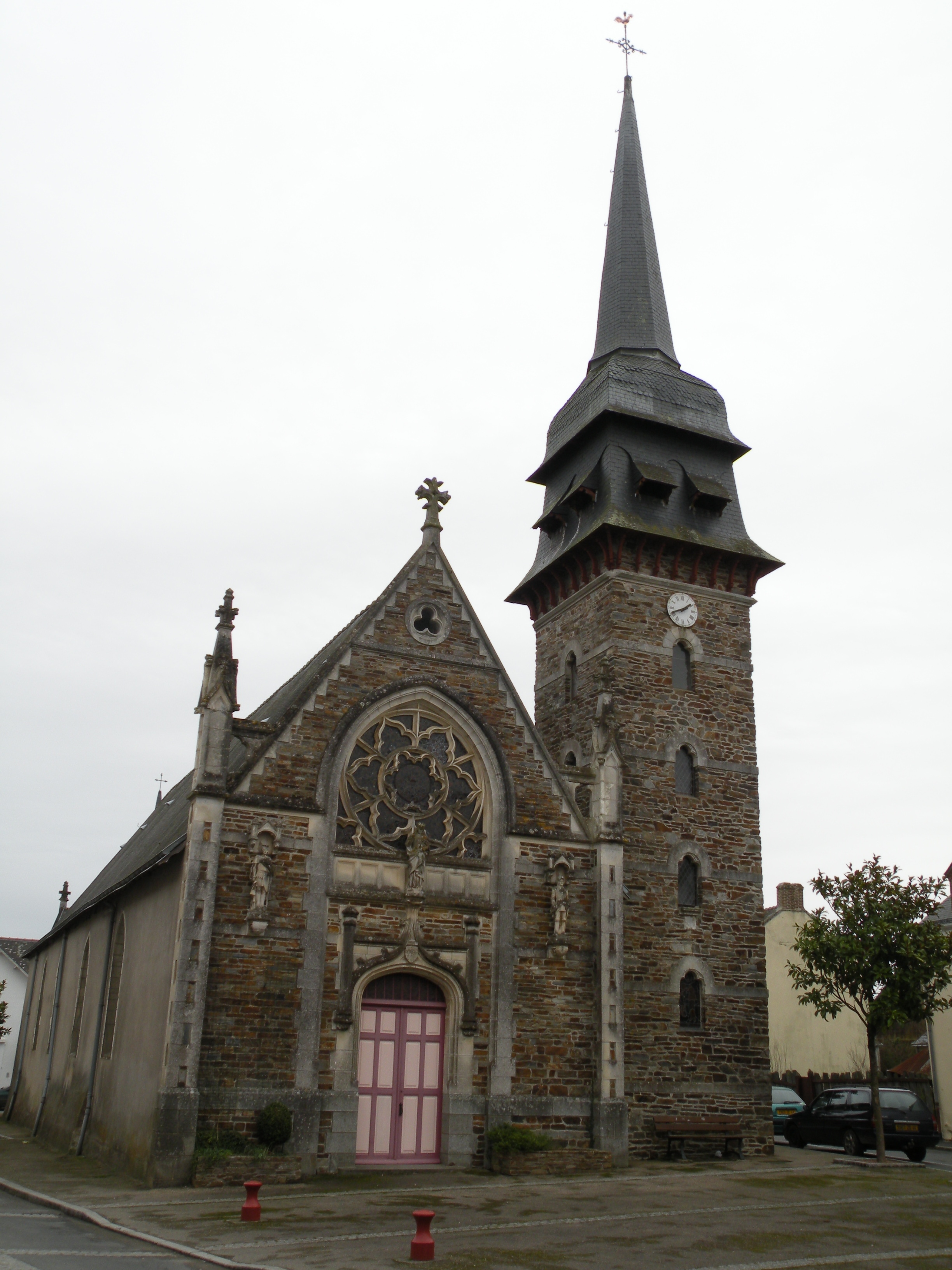 Church of Le Gâvre